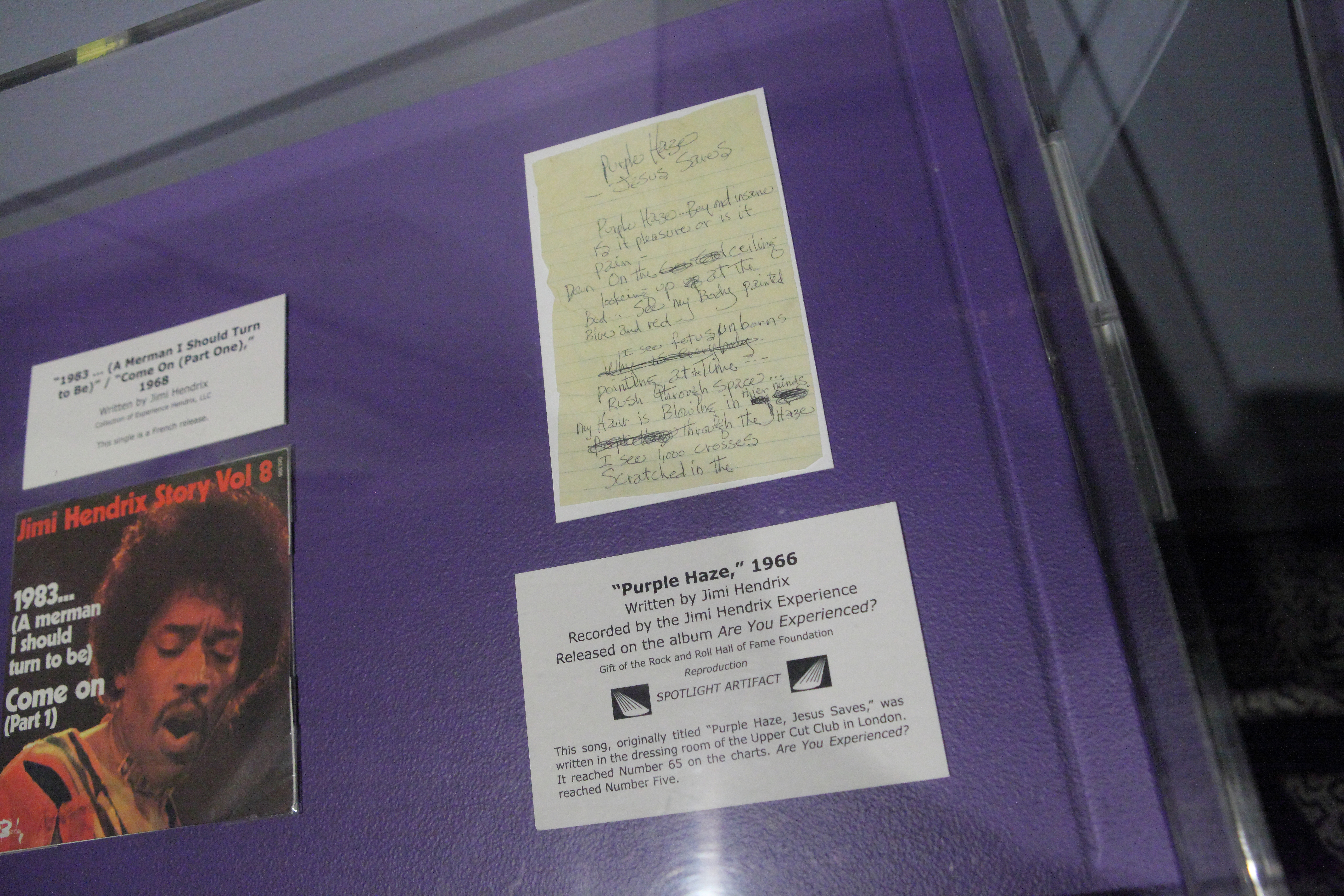 Jimi Hendrix's handwritten lyrics to "Purple Haze" at the Rock and Roll Hall of Fame in Cleveland, Ohio. Flickr Tags: ohio lyrics cleveland jimihendrix handwritten rockandrollhalloffame purplehaze. Flickr Tags: Rock and Roll Hall of Fame Cleveland Ohio. from Flickr album "Rock and Roll Hall of Fame" by Sam Howzit